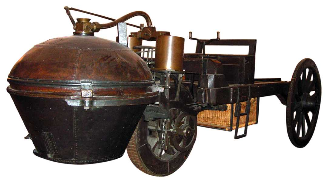 Cugnot's fardier (1771). Note that this is the second fardier, the full-size one. It is not a 'model' (as has been mis-translated elsewhere). Kept at the Musée des Arts et Métiers, Paris.